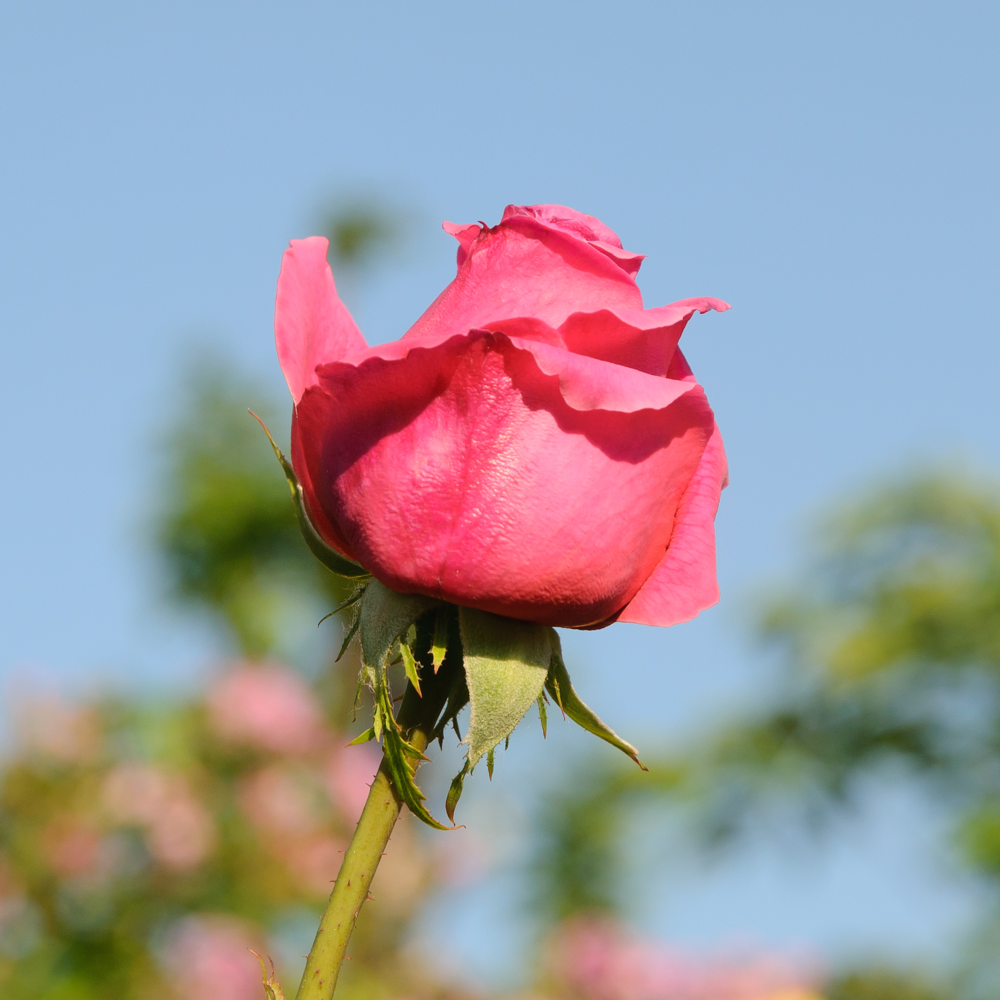 Rosa Othello cultivar found in the Volksgarten, Vienna.